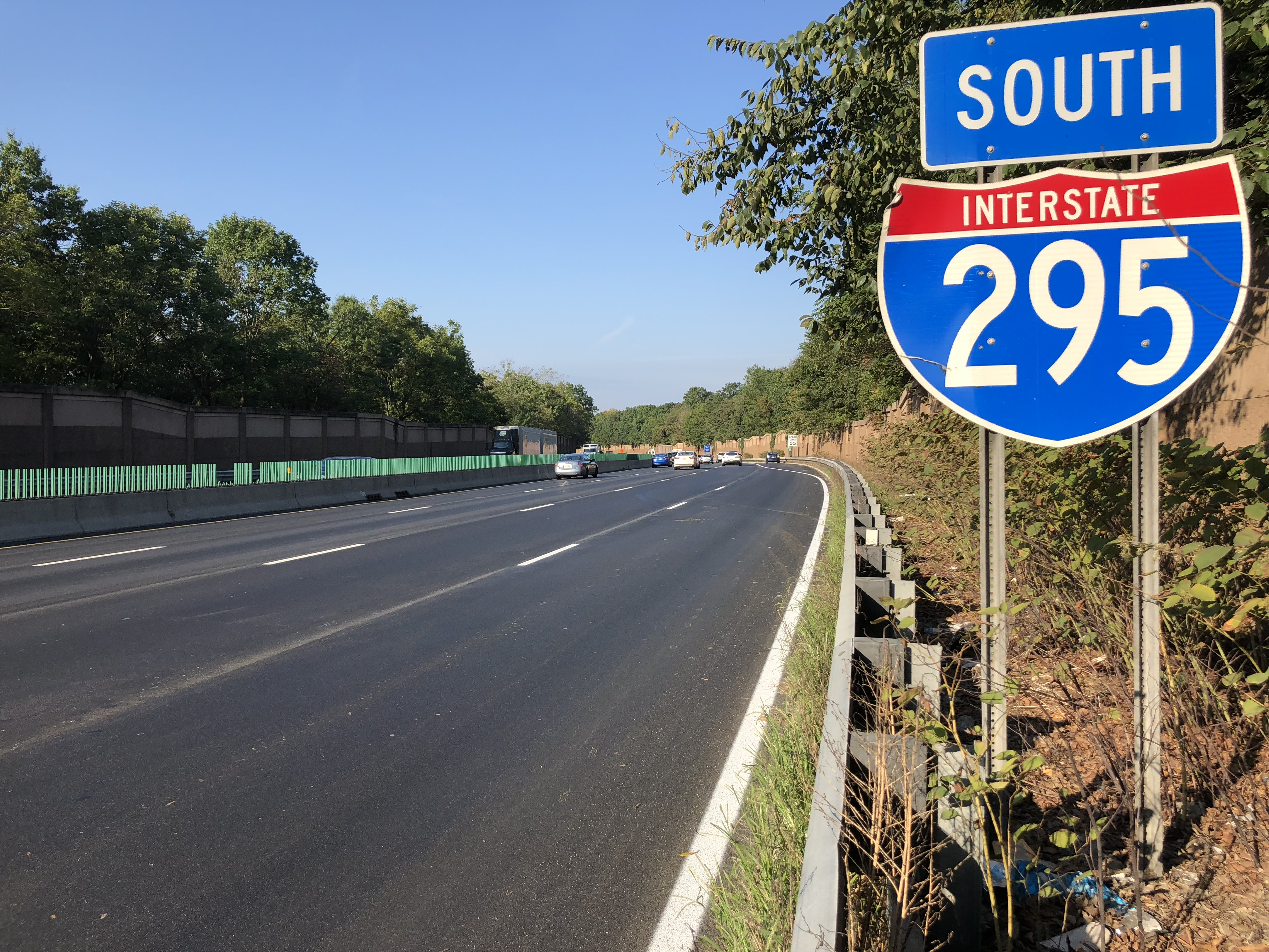 View south along Interstate 295 (Camden Freeway) just south of Exit 29 along the border of Haddon Heights and Barrington in Camden County, New Jersey